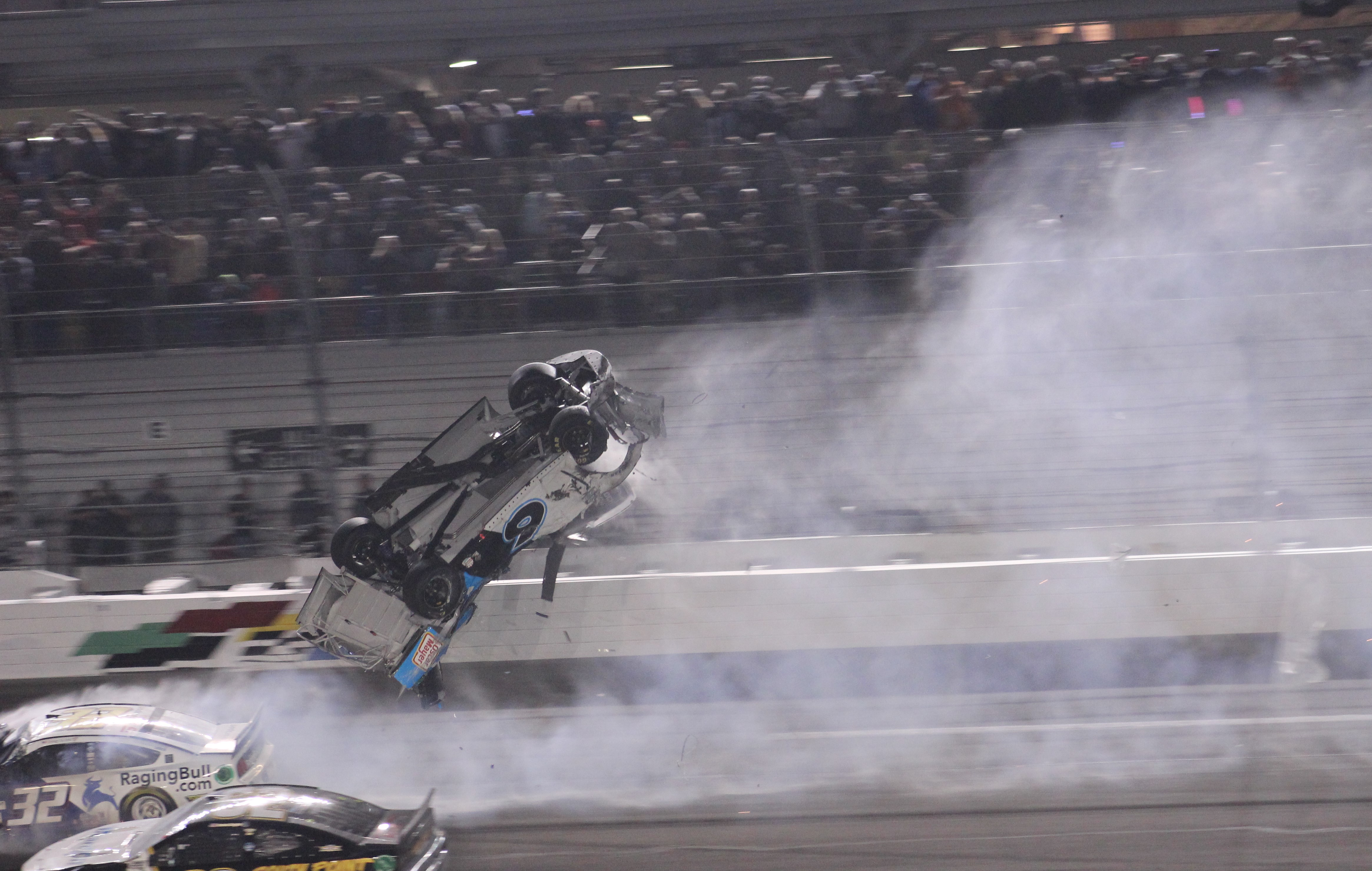 NASCAR driver Ryan Newman flipping airborne during a huge crash in the 2020 Daytona 500.